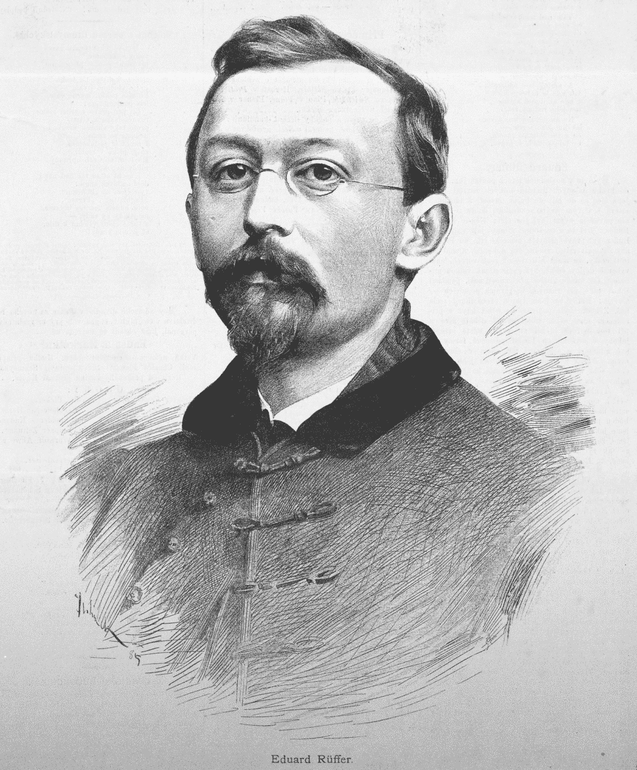 Portrait of Eduard Rüffer, Austrian German- and Czech-speaking writer.